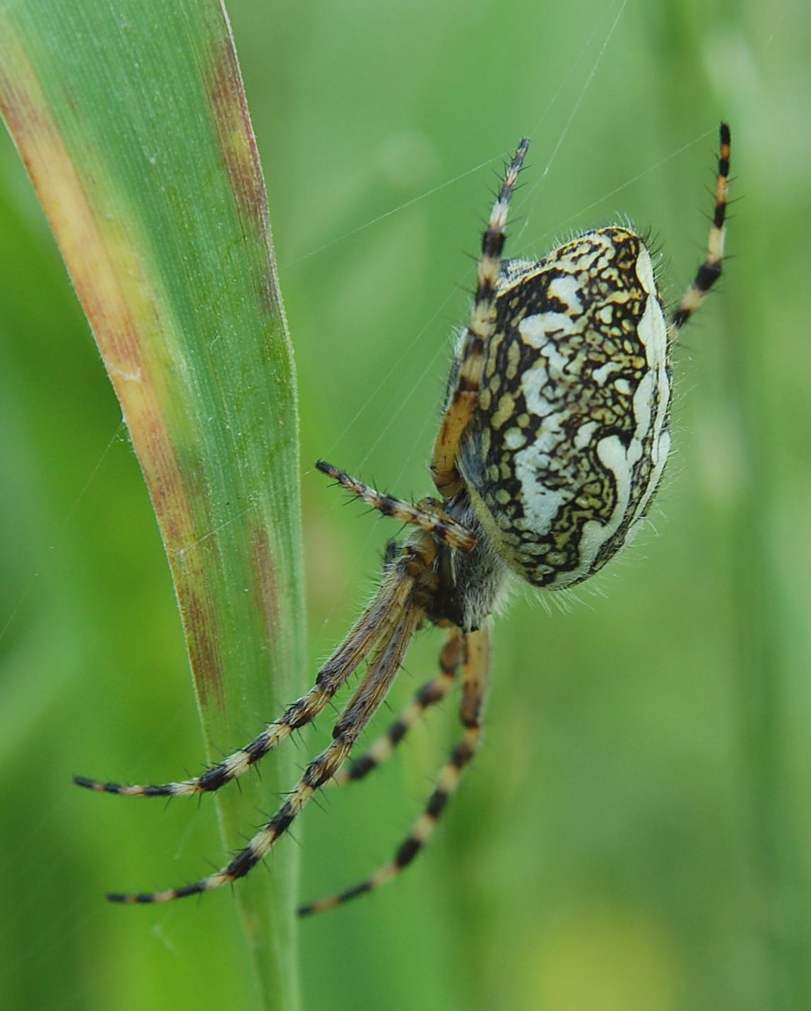 Aculepeira ceropegia, female. Near Polczyn Zdroj, Zachodniopomorskie, Poland.